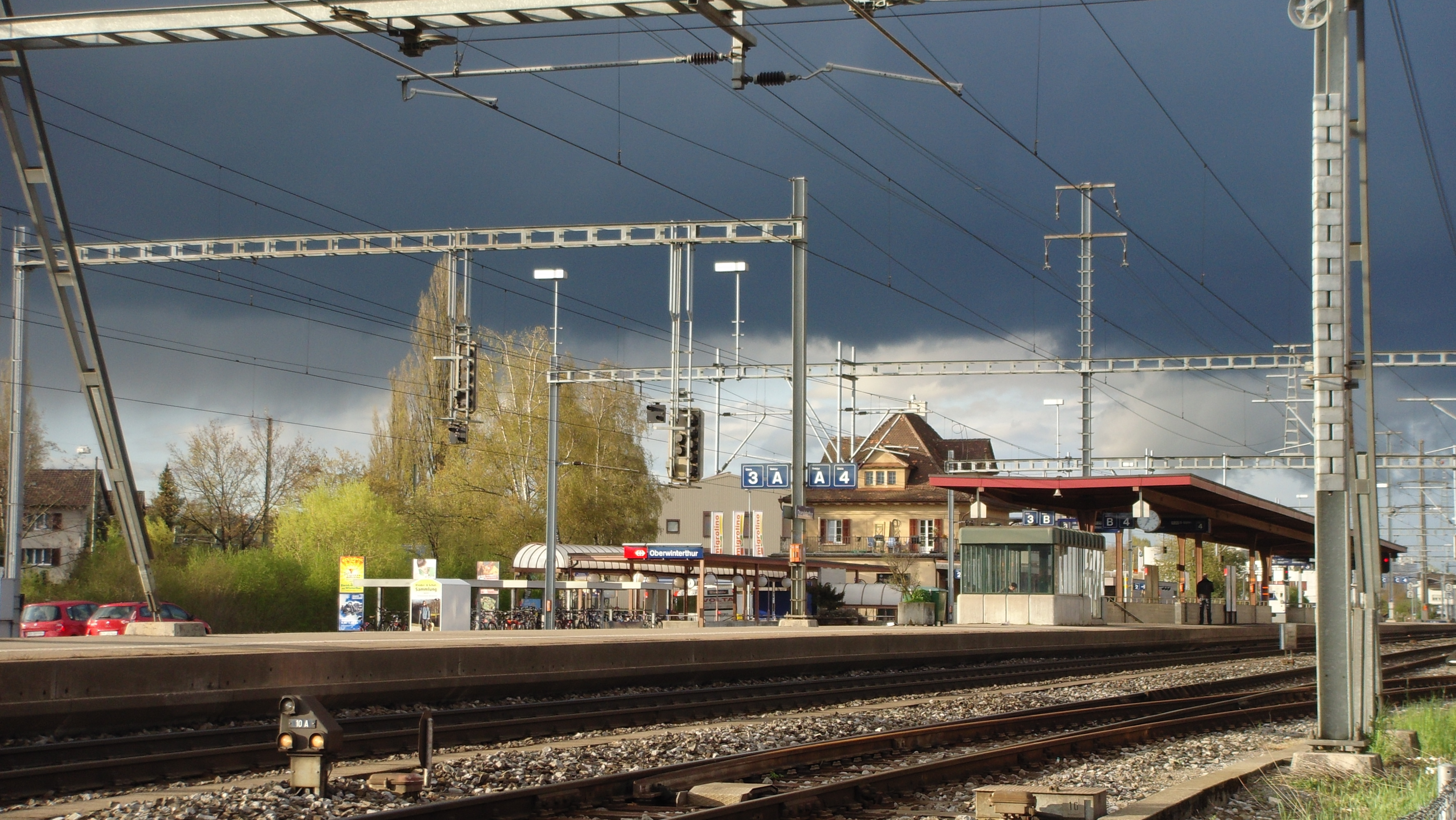 Railway station Oberwinterthur (Switzerland).